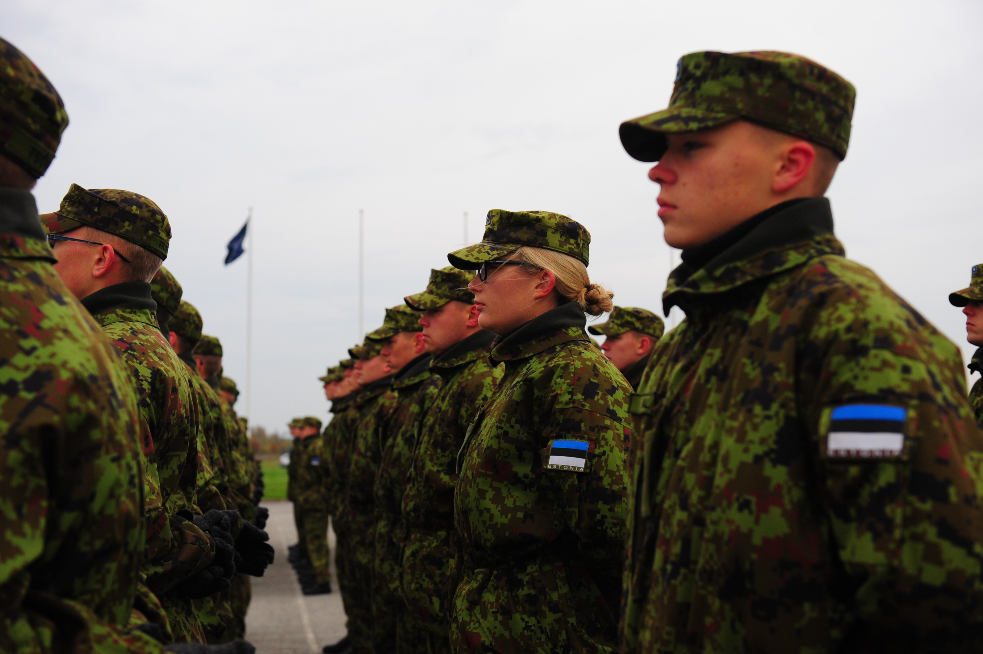 TAPA, Estonia – Estonian Soldiers stand in formation during a welcome ceremony for U.S. troops assigned to 2nd Battalion, 8th Cavalry Regiment, 1st Brigade Combat Team, 1st Cavalry Division from Ft. Hood, Texas, and 1st Squadron, 2nd Cavalry from Vilseck, Germany, here Oct. 8. These activities are part of the U.S. Army Europe-led Operation Atlantic Resolve land force reassurance training taking place across Estonia, Latvia, Lithuania and Poland to enhance multinational interoperability, strengthen relationships among allied militaries, contribute to regional stability and demonstrate US commitment to NATO. (U.S. Army photo by Sgt. Daniel Cole)